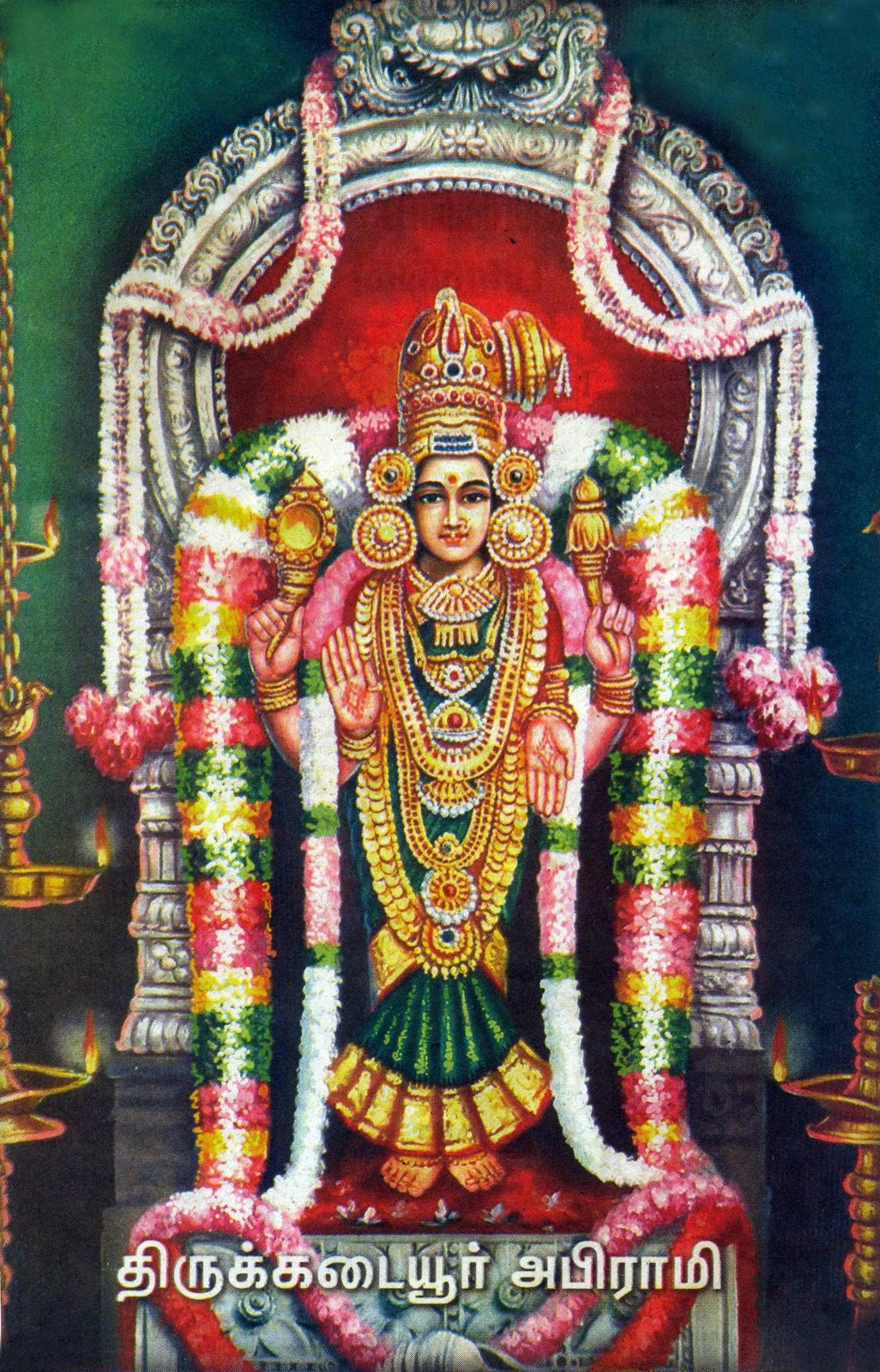 An image of the Goddess Parvati's Tamil incarnation.